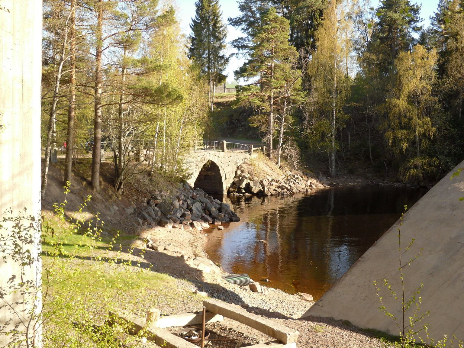 Old stone bridge